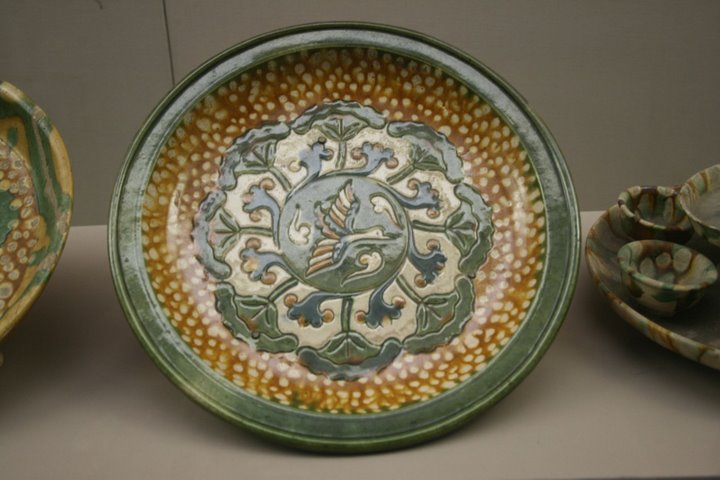 Chinese sancai-glazed pottery dish from the Tang Dynasty (618-907 AD) of medieval China.